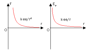 The graph of electrostatic force and potential energy between two positive charge.